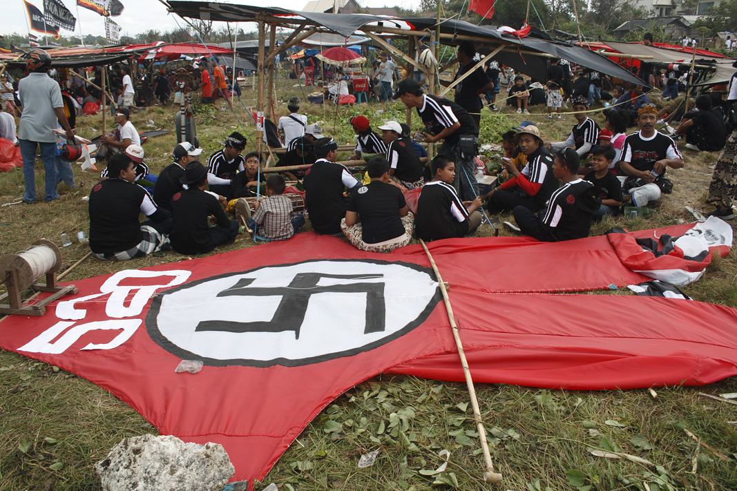 A traditional Balinese kite with swastika emblazoned on it.